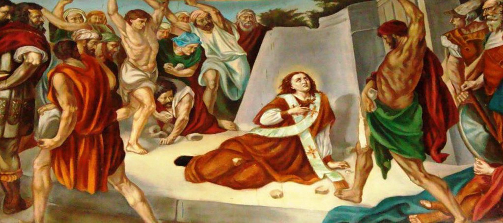 Greek painter Spiridon Gazis (1835-1920) : "Stoning of St. Stephanos", 1884